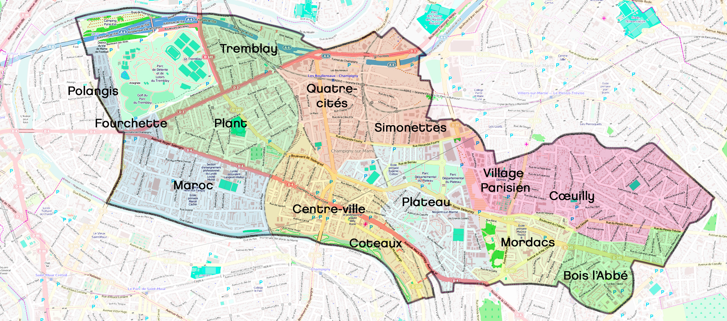 map of local quarters in Champigny-sur-Marne, France